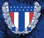 Crest of the Legion of Valor